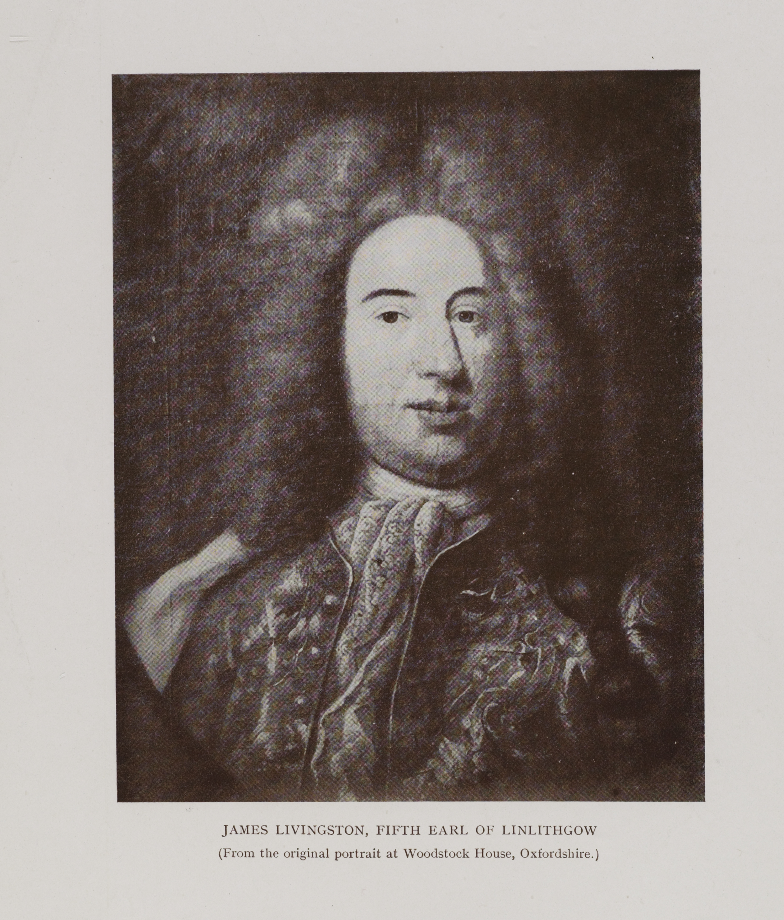 James Livingston, 5th Earl of Linlithgow, from the portrait at Woodstock House